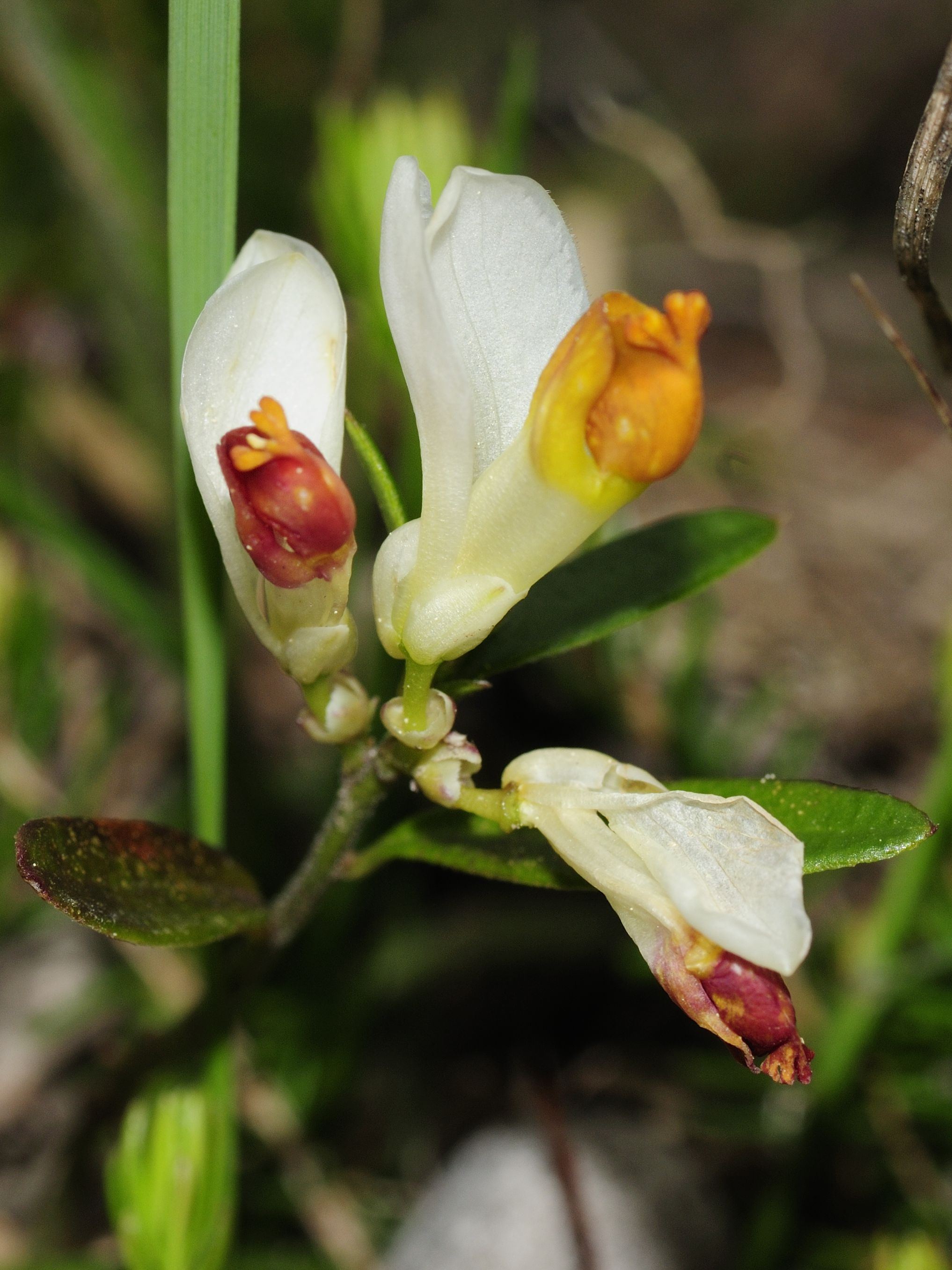 Please report references to .